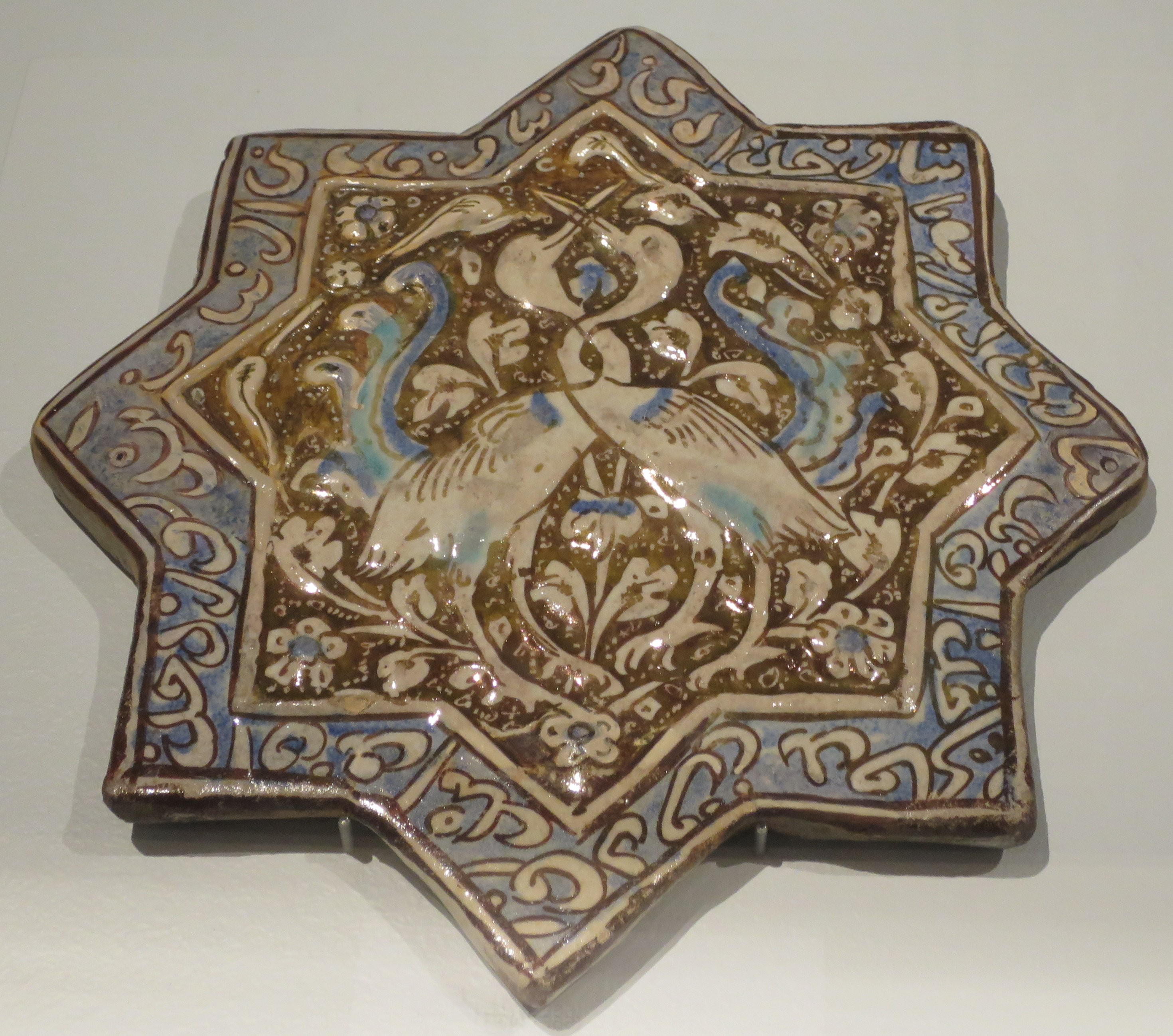 Lusterware star tile with entwined cranes, Iran (Kashan), Ilkhanid, 13th-14th century, stone-paste, overglaze-painted in luster, underglaze-painted in cobalt, Honolulu Museum of Art (long-term loan from the Doris Duke Foundation for Islamic Art)